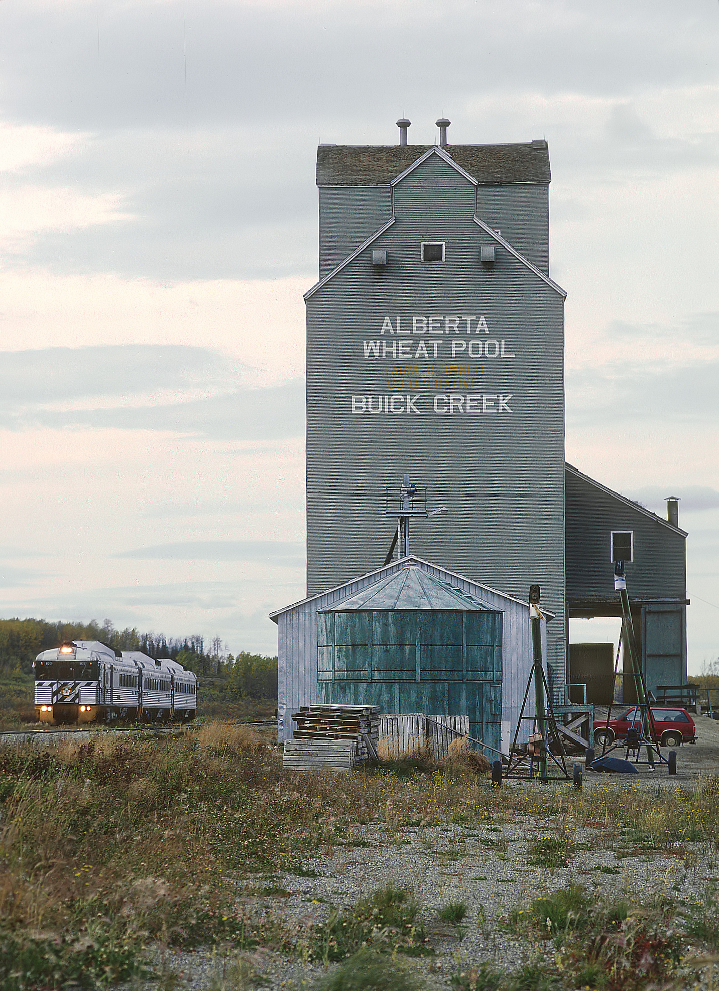 A Roger Puta photograph